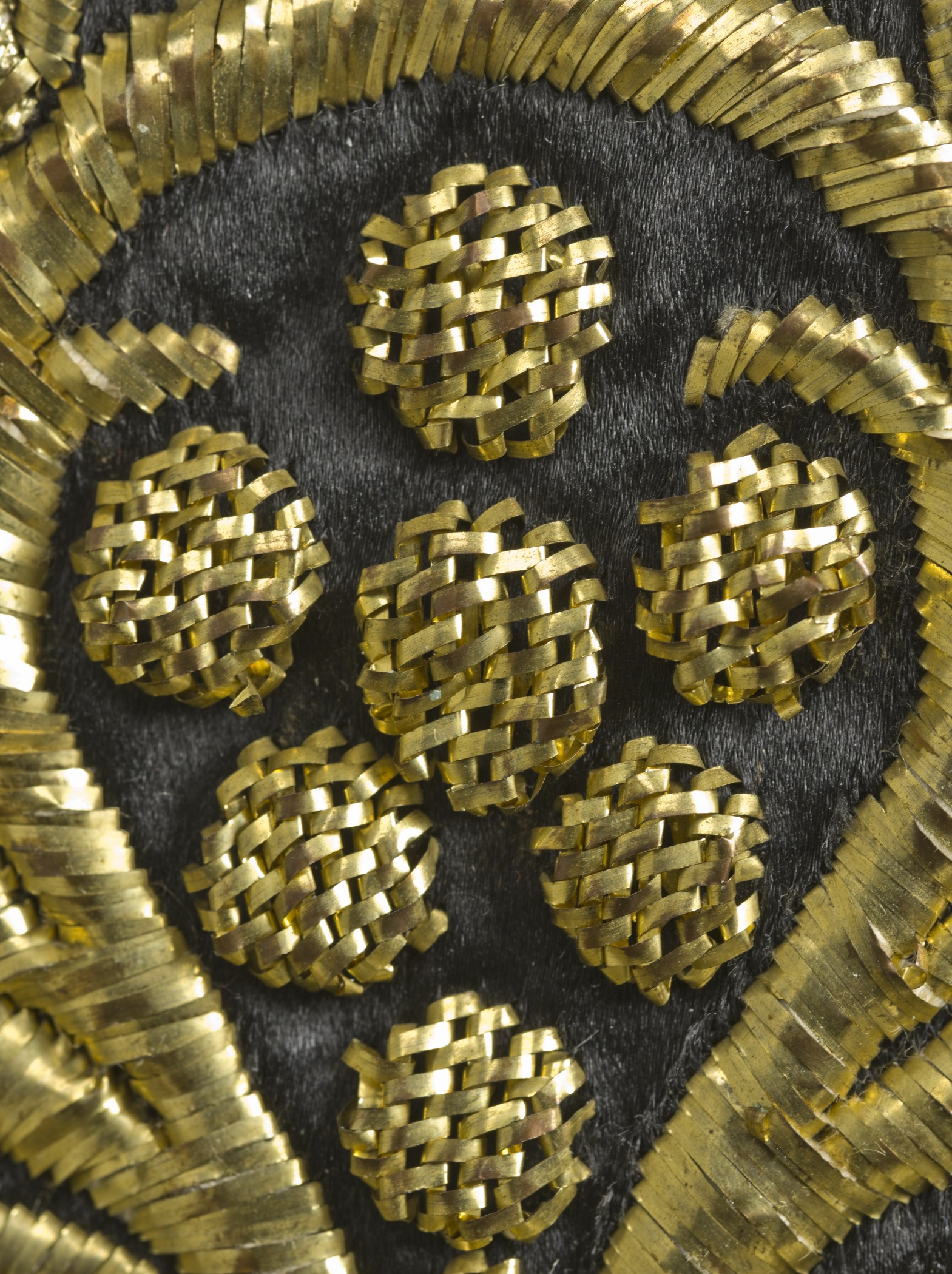 Portugal, circa 1845 Costumes; principal attire (entire body) a) Silk satin with metallic-thread embroidery and silk net (tulle) trim; b-c) Silk satin with metallic-thread embroidery a) Bodice center back length: 10 1/8 in. (25.72 cm); b) Petticoat center back length: 44 in. (111.76 cm); c) Train: 120 x 54 in. (304.8 x 137.16 cm); d) Fancy dress bodice center back length: 14 1/2 in. (36.83 cm); e) Standing Whisk (Medici) Collar: 15 x 17 in. (38.1 x 43.18 cm) Purchased with funds provided by Suzanne A. Saperstein and Michael and Ellen Michelson, with additional funding from the Costume Council, the Edgerton Foundation, Gail and Gerald Oppenheimer, Maureen H. Shapiro, Grace Tsao, and Lenore and Richard Wayne (M.2007.211.941a-e) Costume and Textiles